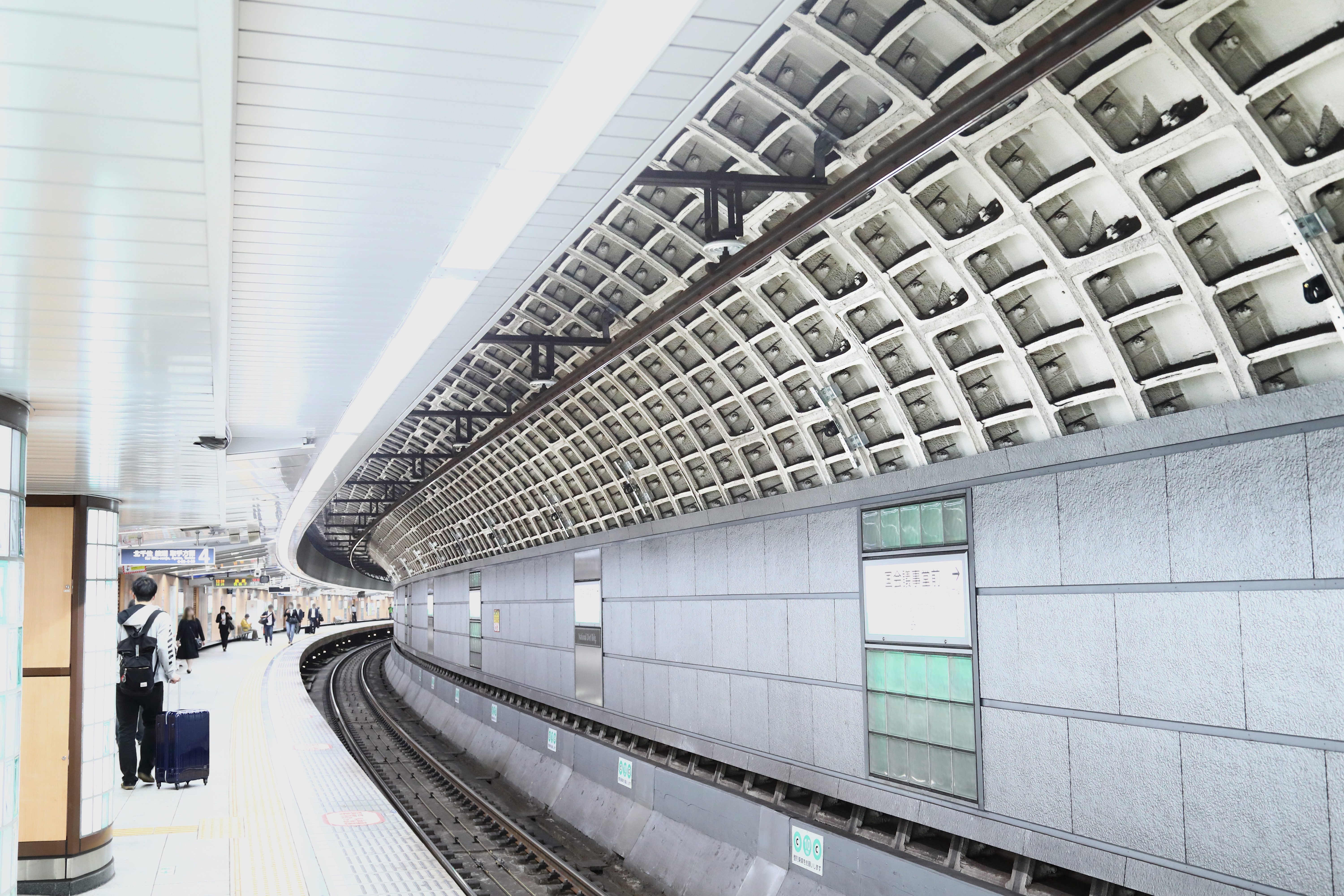 The Chiyoda Line Ayase-bound platform at Kokkai-gijidō-mae Station in Tokyo, Japan